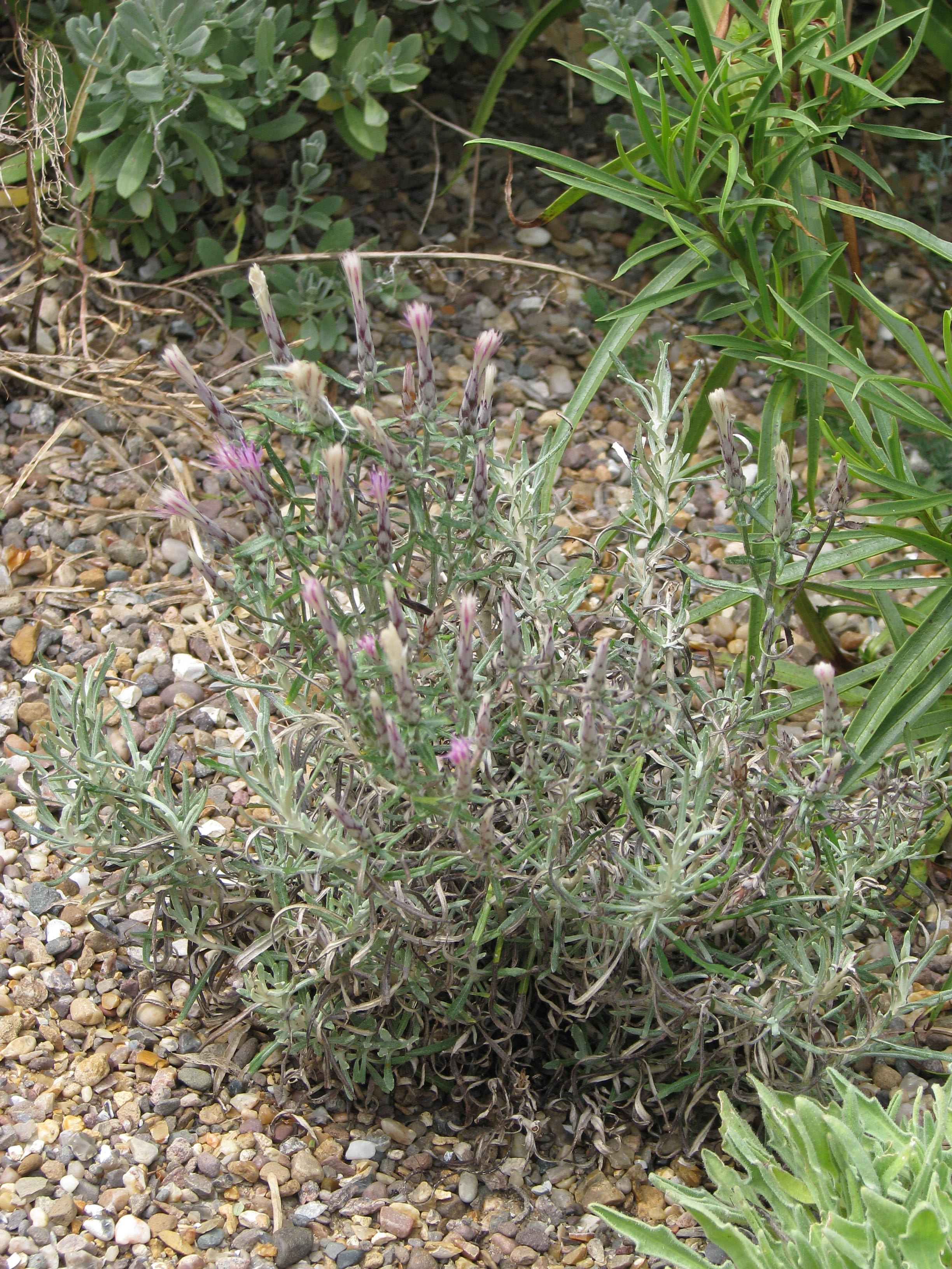 A bit underwhelming compared to how it looks in it's Mediterranean homeland but I shall persevere.